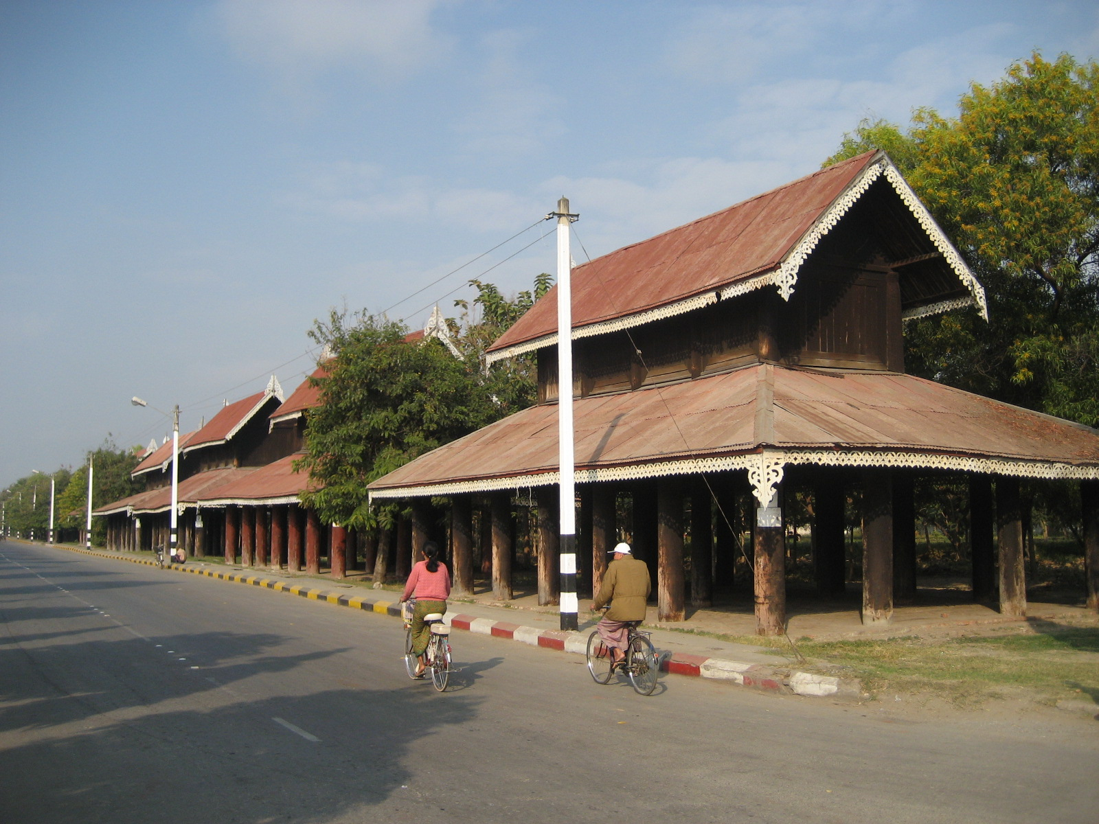 Thudhama Zayats at the foot of Mandalay Hill on the northeast corner of the old city wall and moat. Used as exam halls for monks and novices during the reign of the last Konbaung kings of Burma, they still provide accommodation for large parties of pilgrims in bullock-carts from villages around Mandalay at annual pagoda festivals. Photographer User:Wagaung.